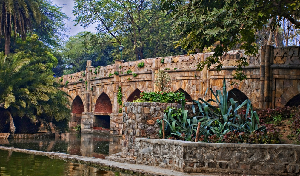 This bridge was built by Nawab Bahadur, a nobleman in the court of Akbar (1556-1605). It is one of the very few surviving works built in Delhi area during Akbar’s reign. The bridge once spanned a tributary of the Yamuna, a part of the river system that once drained the South Delhi areas. The bridge has seven arches, their span decreasing from the centre to the bank of the streamlet over which it was built. The pul refers to the piers of which there are eight (‘ath’) supporting the arches of this bridge. The top of the bridge is paved with local grey stone and the parapet of the same material originally was crowned with a moulded coping which rose to about 3 feet and 8 inches above the level of the roadway. The bridge was repaired in 1913-14. This is a Protected Monument (Category ‘A’) of the Archaeological Survey of India.